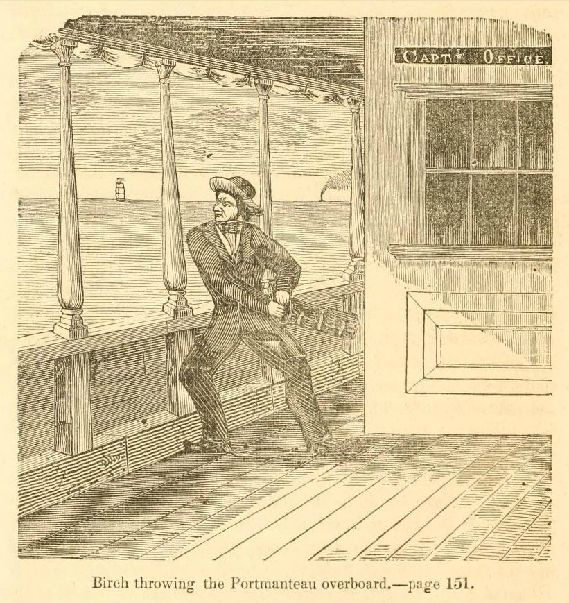 Illustration of outlaw Robert H. Birch "Throwing The Portmanteau Overboard" from the Edward Bonney book, Banditti Of The Prairies